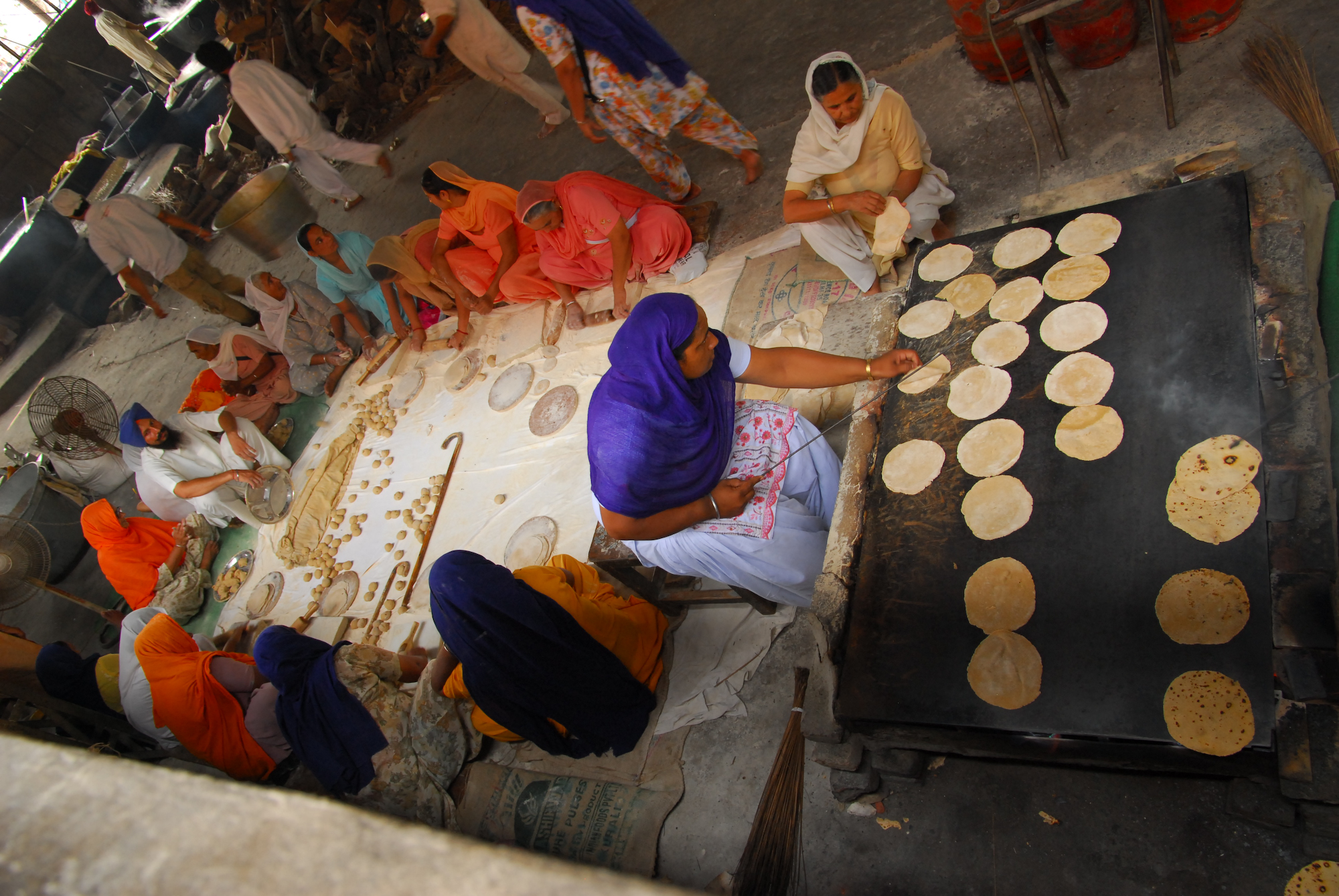 Golden Temple